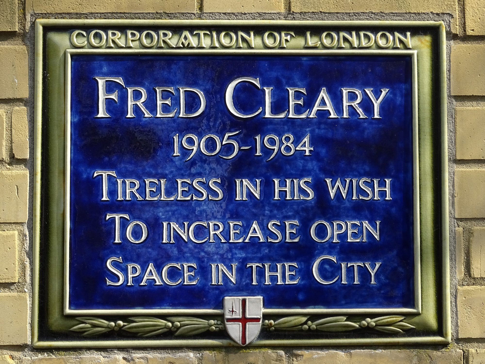 Blue plaque erected by City of London at Cleary Gardens, Huggin Hill, London EC4V 4HQ